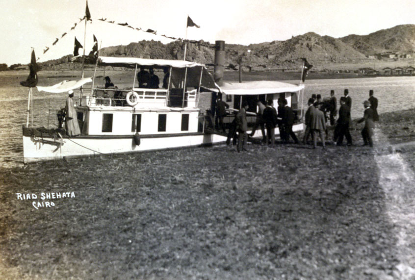 A group of dignitaries participating in the ceremony of opening of the Luxor - Aswan during the ascent to rock Alrkas after their visit to the Temple of Philae.